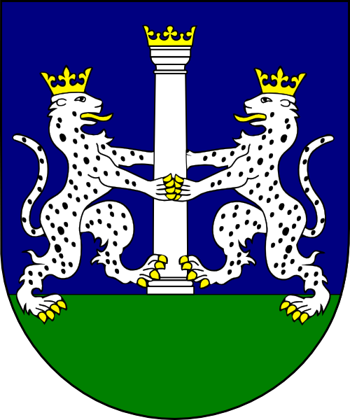 Coat of arms (shield only) of György Lippay, bishop of Pécs, Hungary (1631 - 1633), bishop of Veszprém, Hungary (1633 - 1637), bishop of Eger, Hungary (1637 - 1642), archbishop of Esztergom (1642 - 1666). Identical with original Lippay family arms. Leopards are often mispictured as lions.